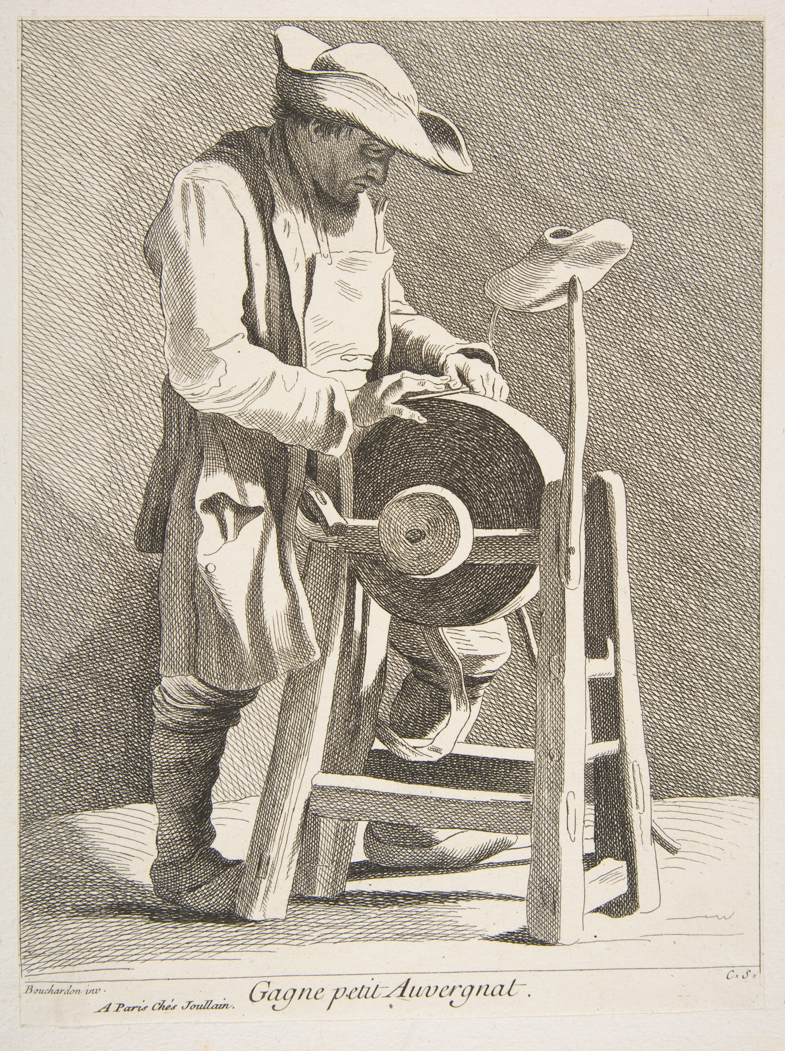 Knife Sharpener. A man sharpening a blade on a grindstone.